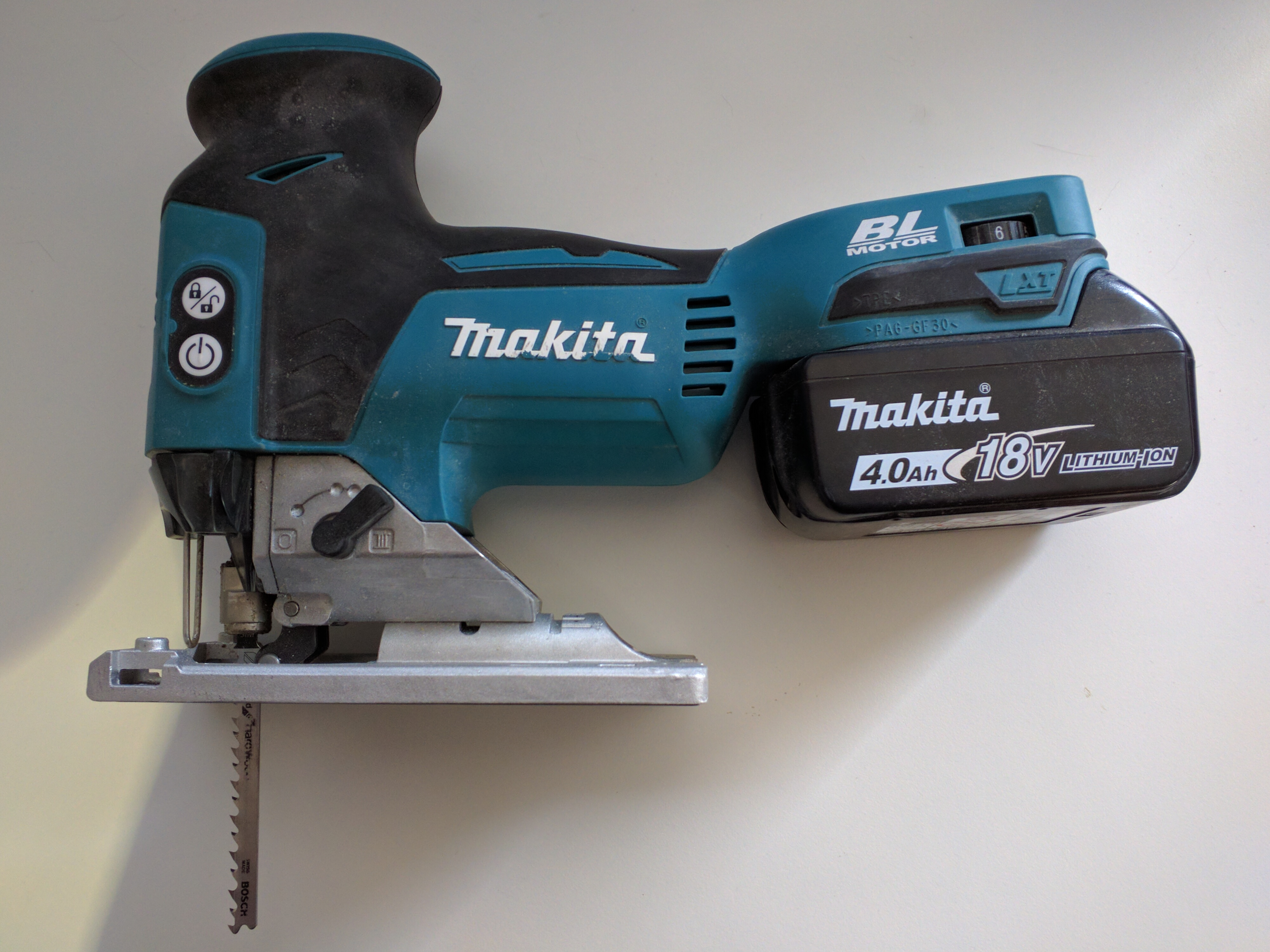 Makita DJV181 cordless pendulum action jigsaw